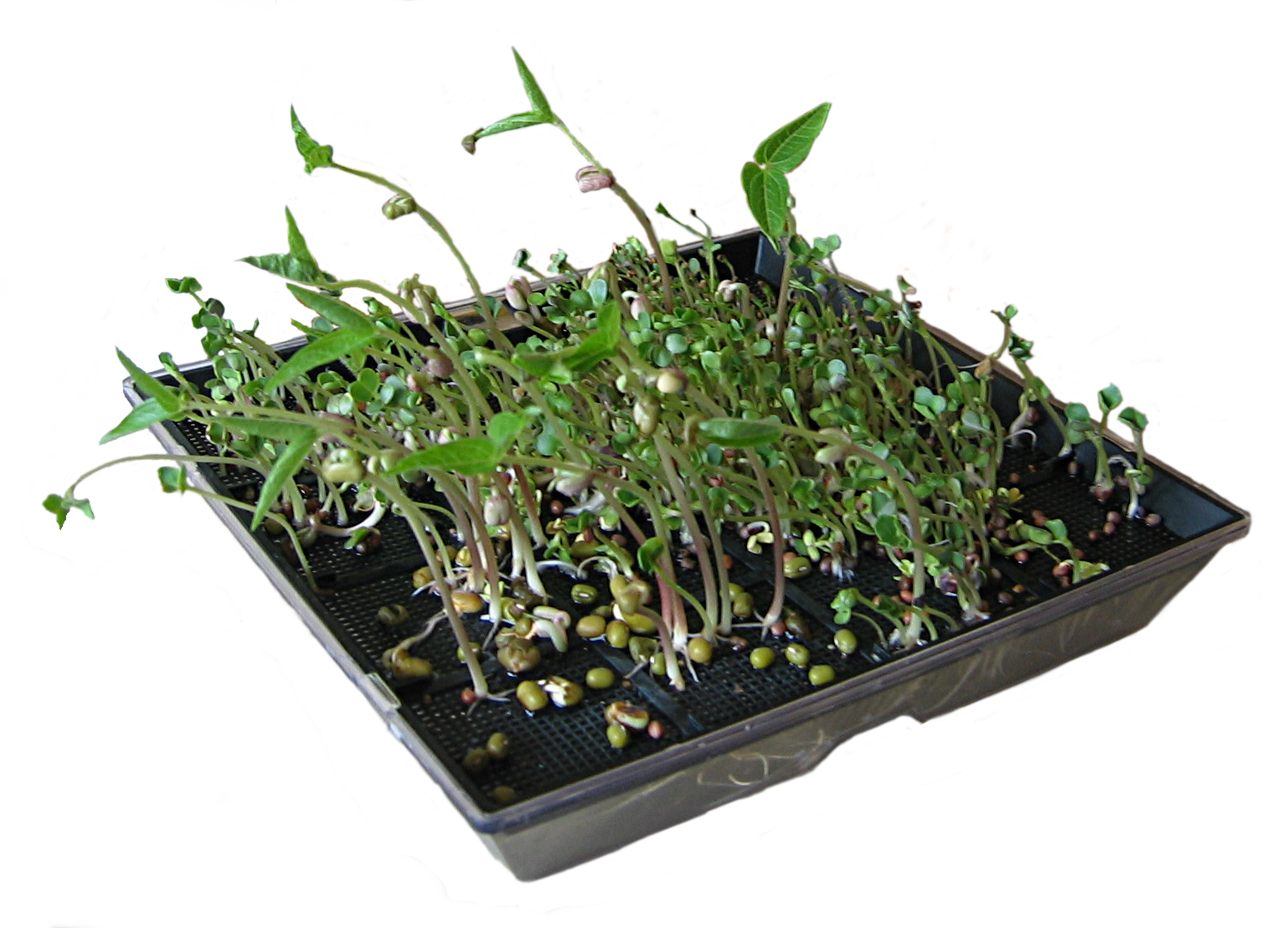 Sprouting